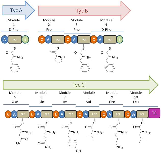 domain organization